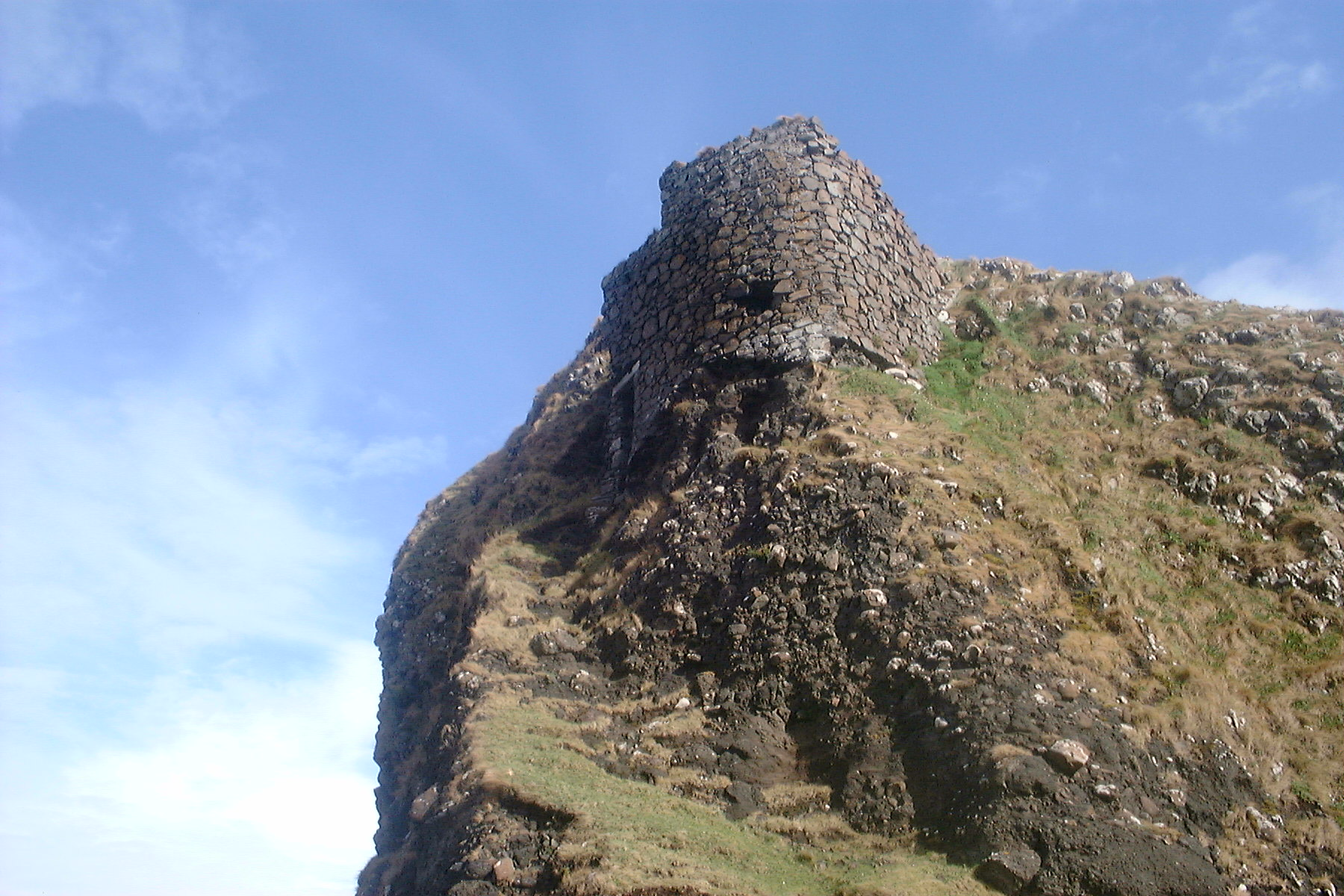 Coroghon Castle, Canna, Inner Hebrides.